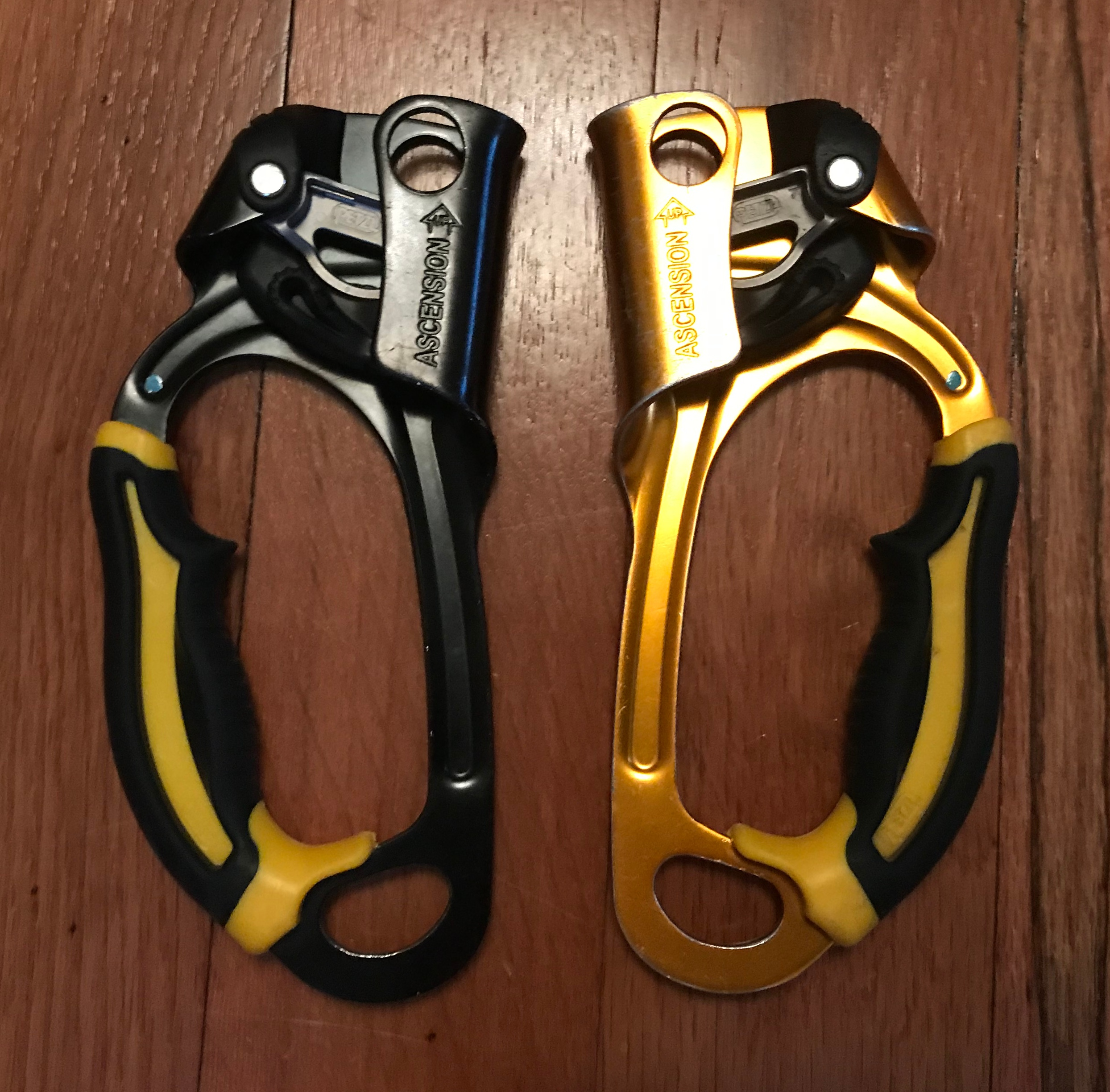 Petzl